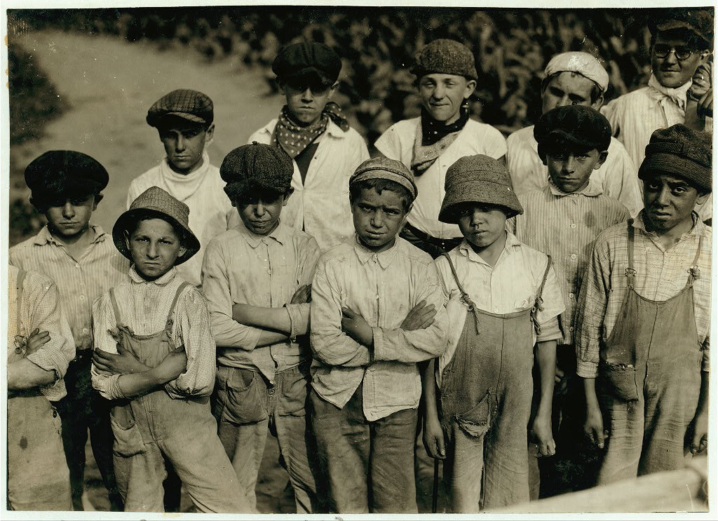 Field-workers, Goodrich Tobacco Farm, near Gildersleeve, Conn. See Report, L.W. Hine. Location: Gildersleeve, Connecticut.